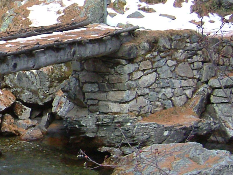 Detail of a footbridge in the mountains above Vallorcine, France. Dry set masonry supports a rustic log bridge, where it provides a well-drained support for the log (this will increase its service life).